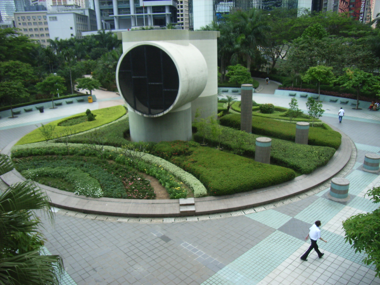 HK Harcourt Park, Queensway Bay Picture by QWB656